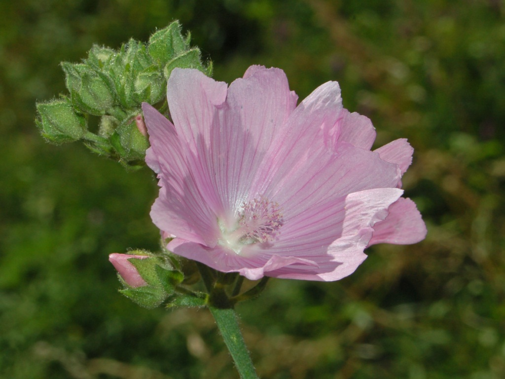 Malva alcea - Arquata S., Alessadria, Italy